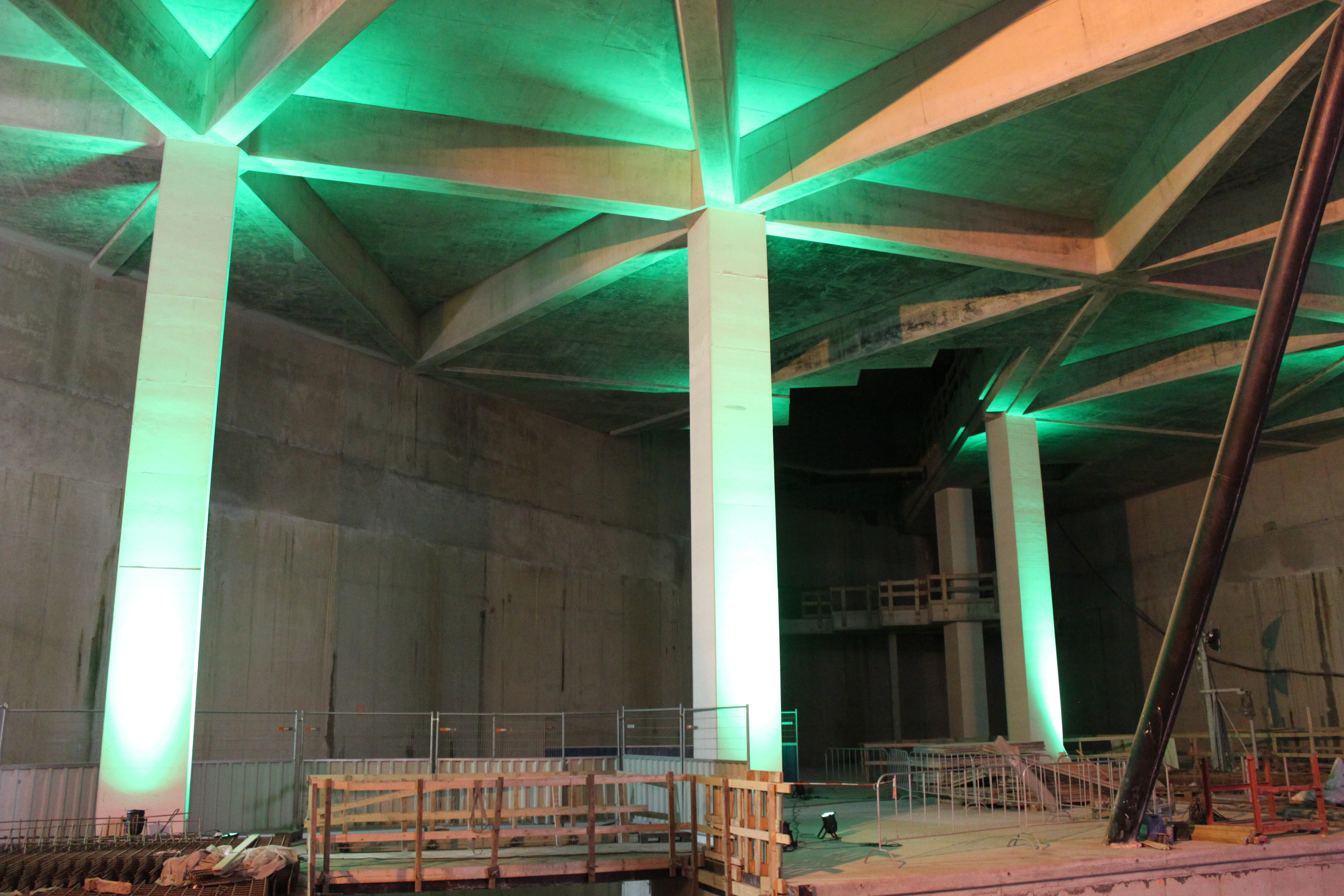 The future metro stop 'Central Station, part of the future North/South metro line, Amsterdam.